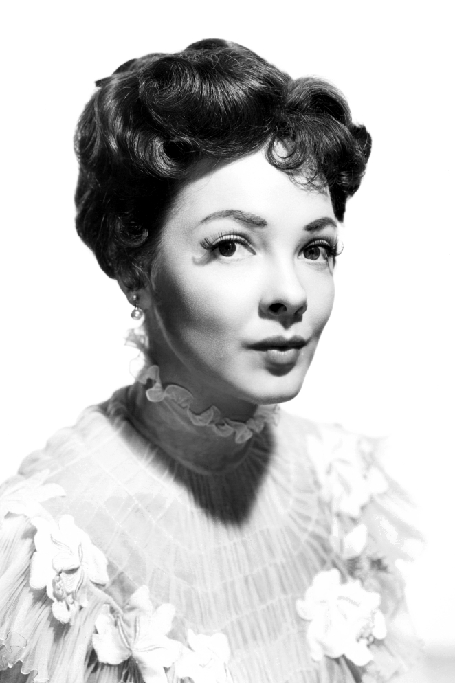 Publicity photo of Kathryn Grayson for The Toast of New Orleans